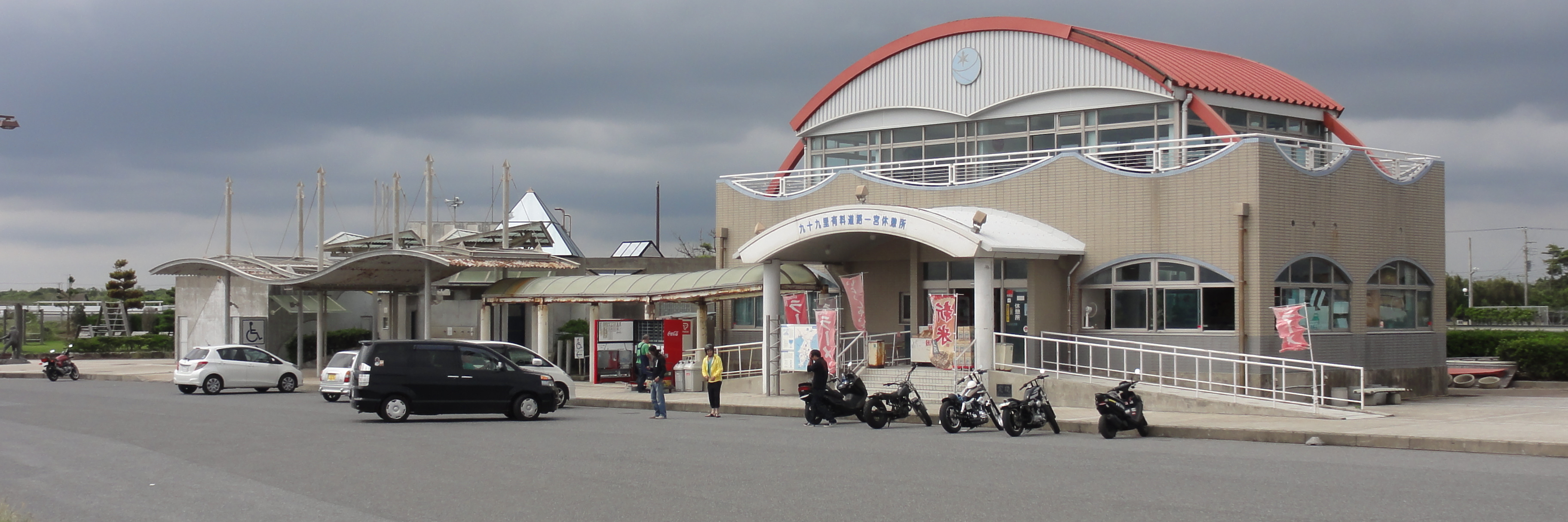 Ichinomiya Paking Area,Chiba prefecture, Japan